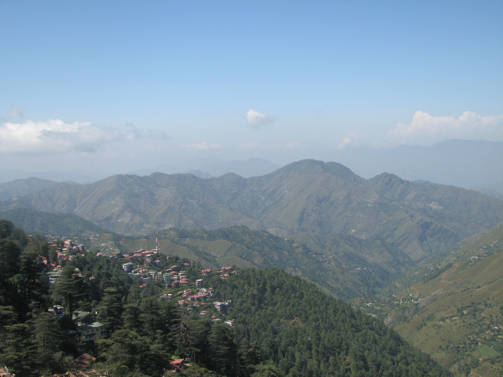 Shimla, A beautiful view of Hills, Taken by- Vineet Jaiswal